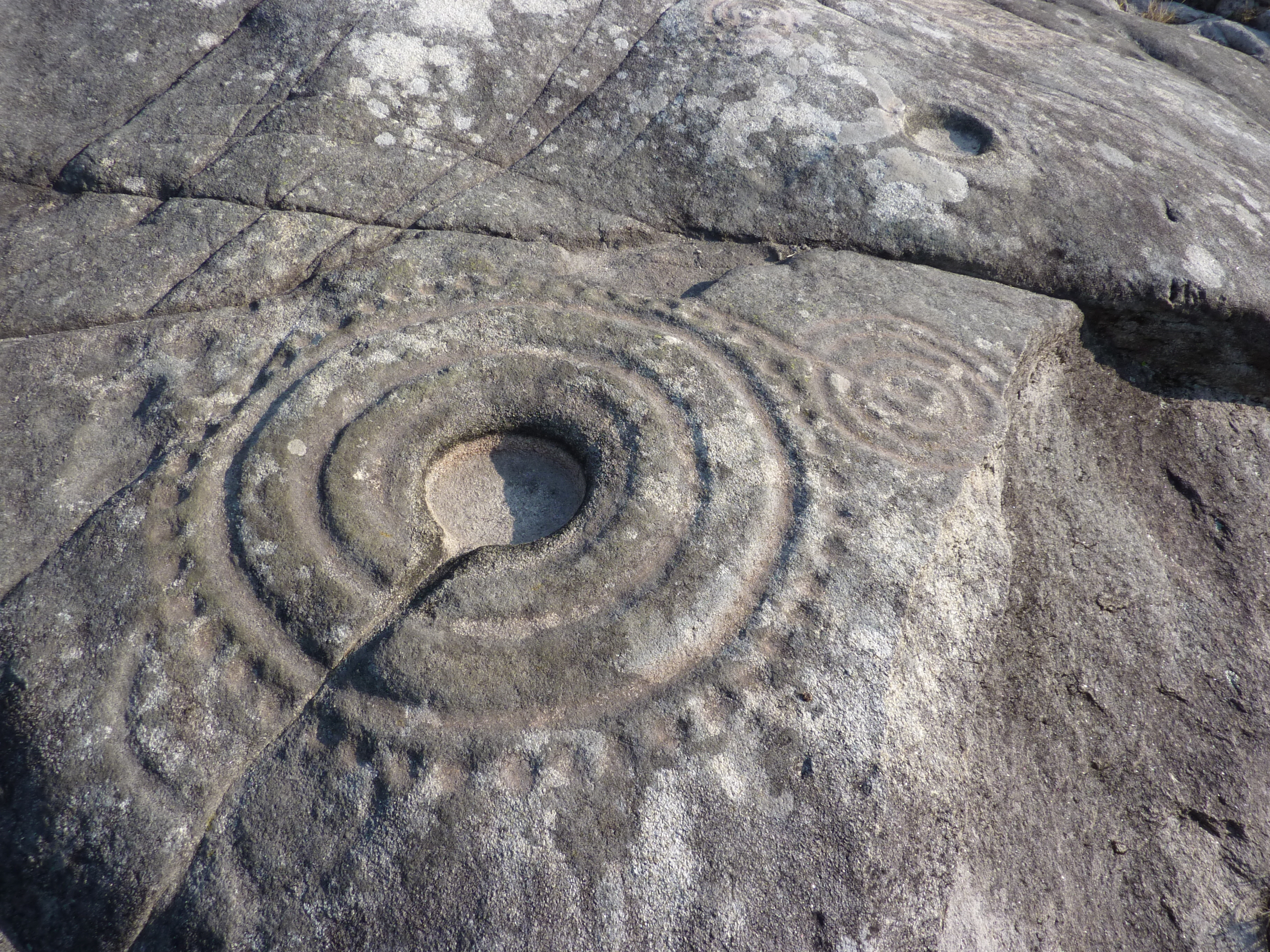 Cup and ring petroglyph at the 'Laxe das Rodas' ('Stone of the Wheels'), Louro, Galicia.